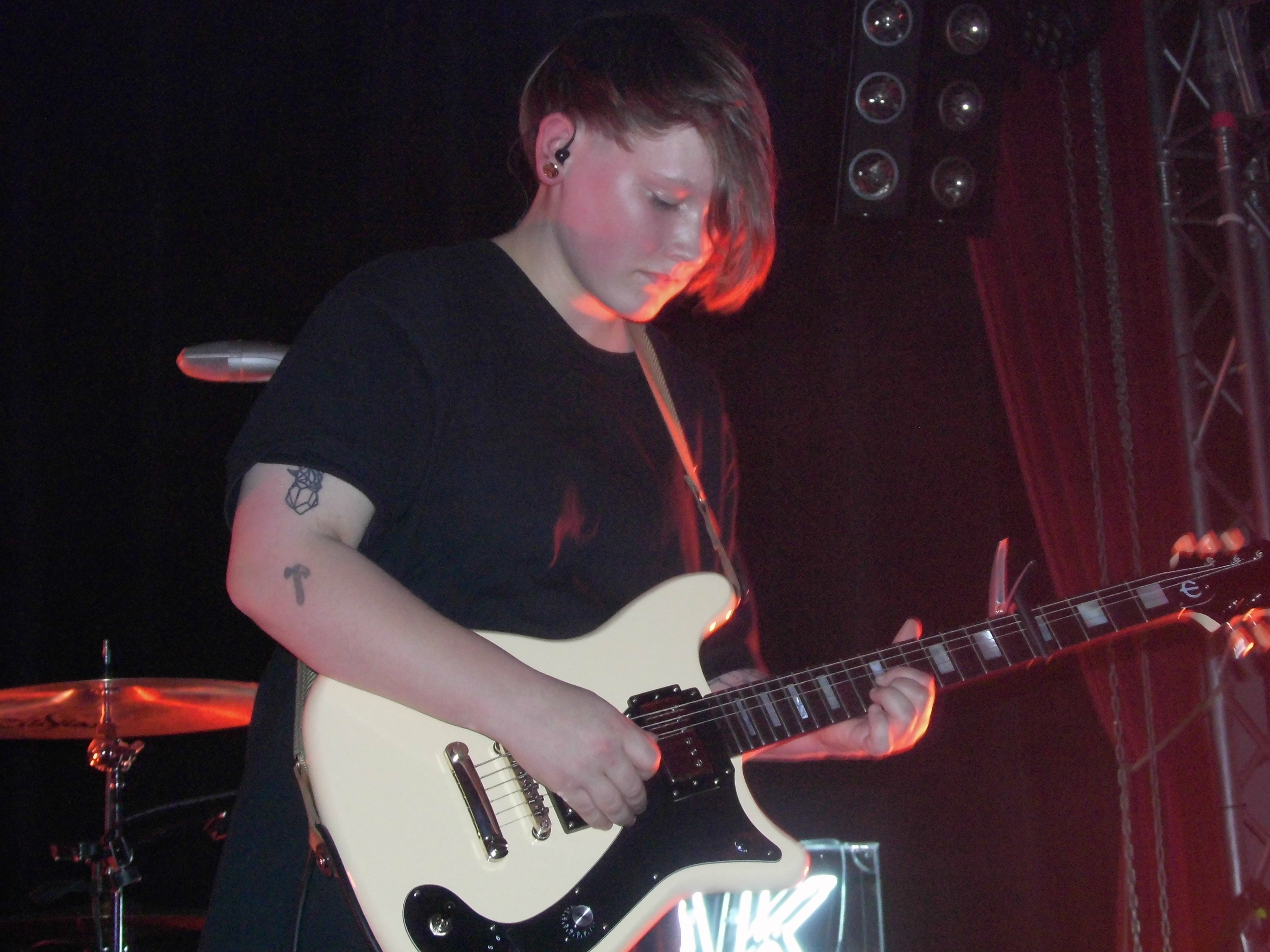 SOAK at a Concert in Berlin (2015-10-09)